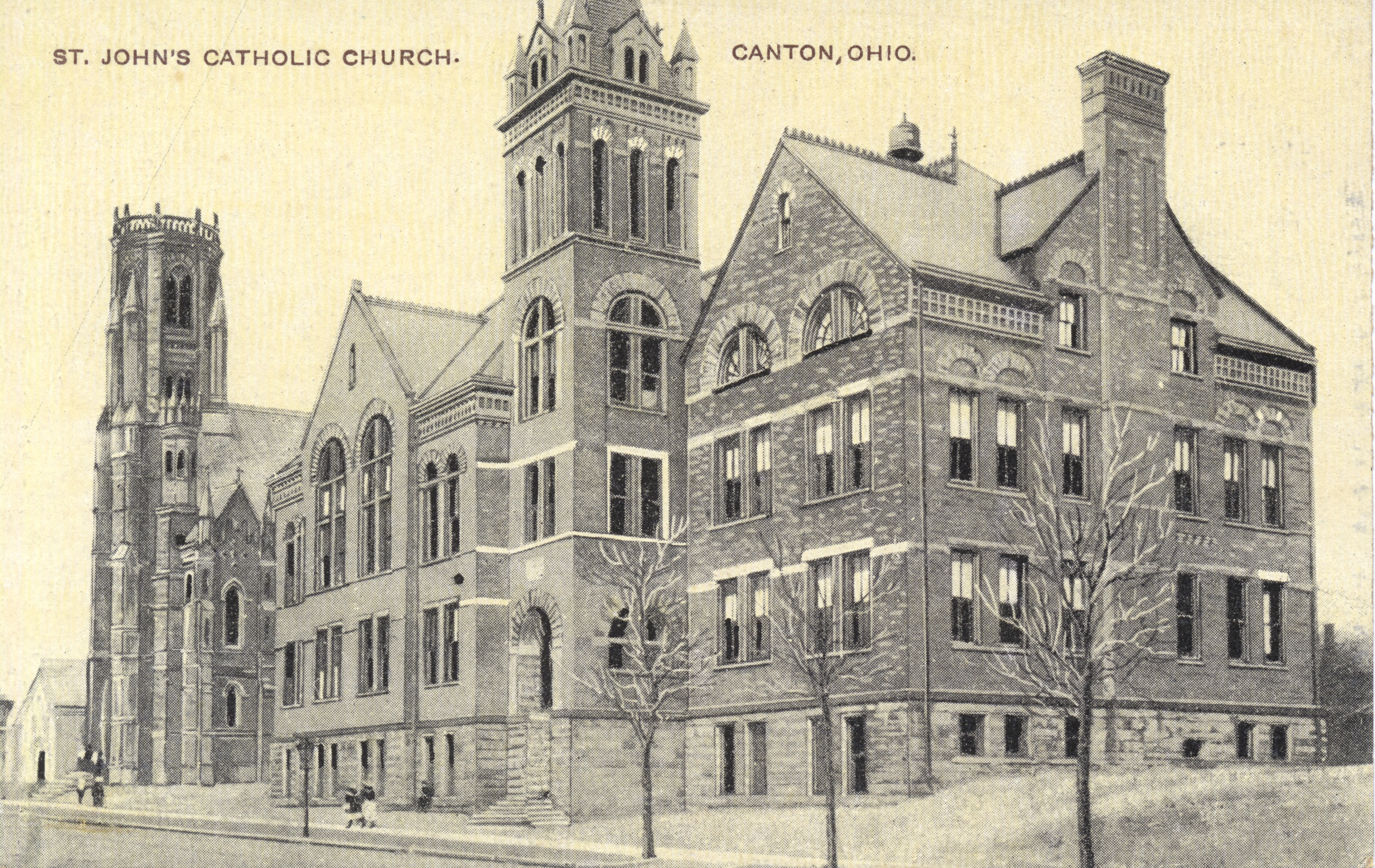 Persistent URL: Subject (TGM): Churches; Religious facilities; Catholic churches; Ohio--Canton